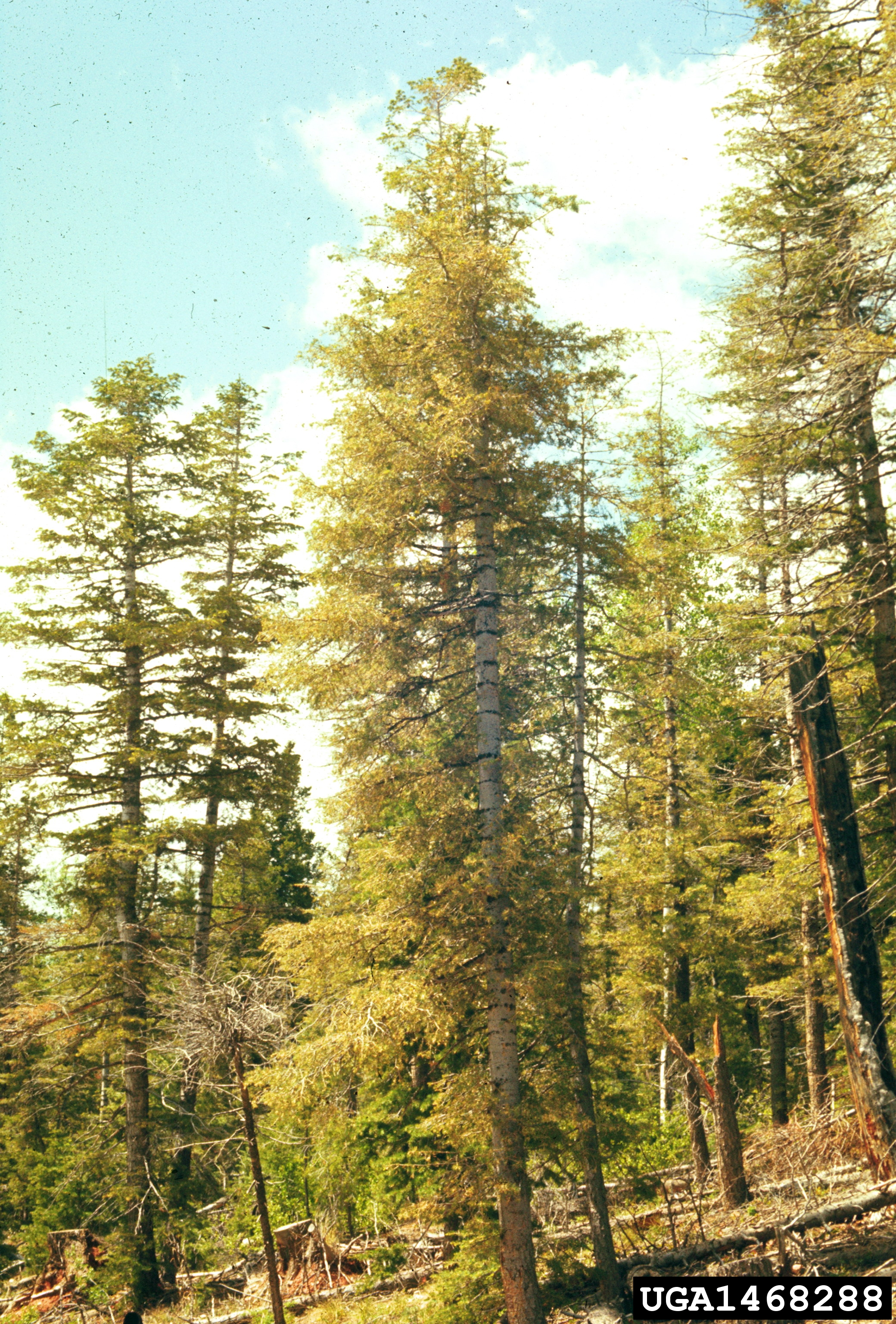 Epinotia meritana (White Fir Needleminer) damage on Abies concolor subsp. concolor, Coyote Hollow, Dixie National Forest, Utah, United States